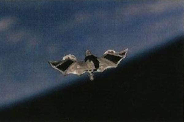 Tal Ramon's fighter pin, NASA's deceased astronaut Ilan Ramon's son, hovers in space outside the International Space Station. It was flown to the station by the Space Shuttle Atlantis, and released out to space on behalf of Tal Ramon and in memory of his father, on Mission STS-132, in May 2010.